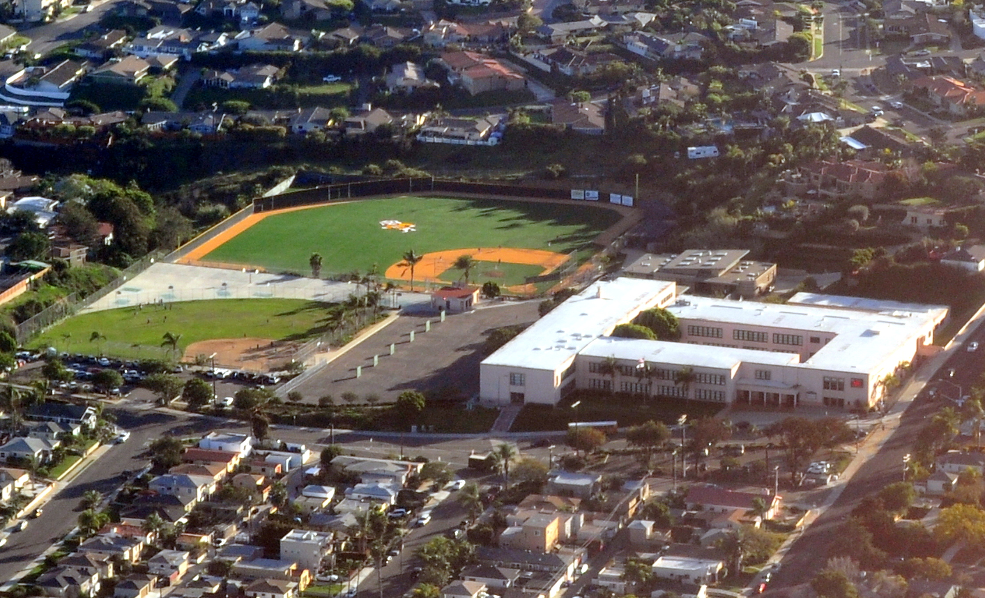 Aerial view of Dana Middle School, Point Loma, San Diego, California, looking roughly south.